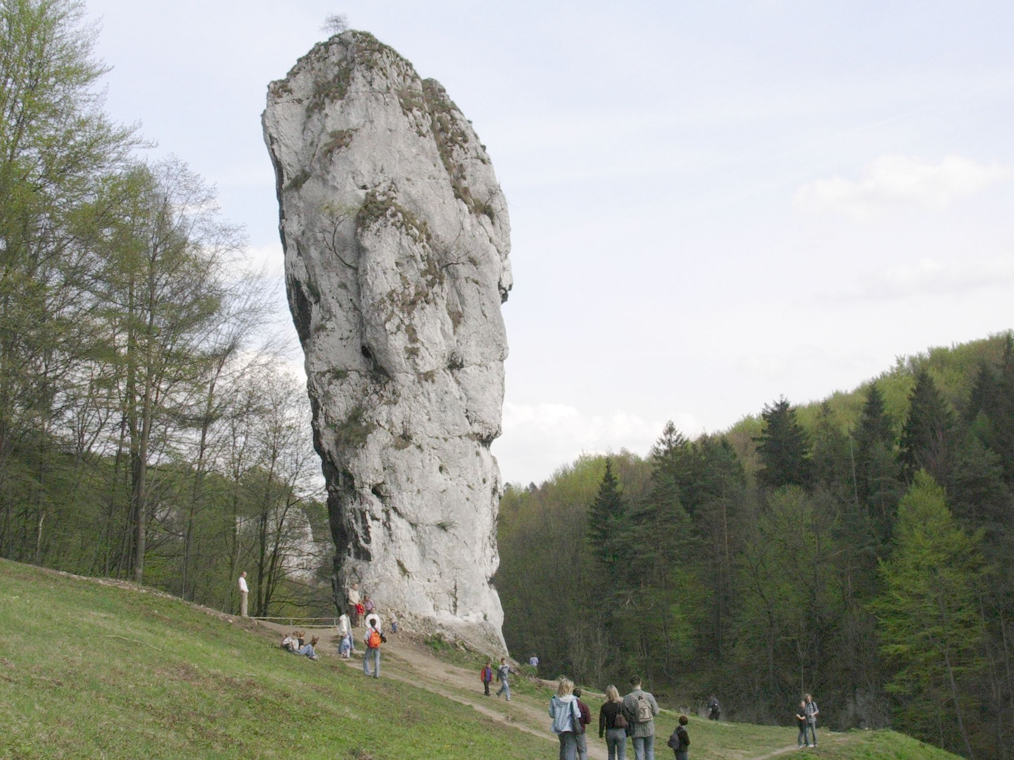 Maczuga Herkulesa not far from Castle Pieskowa Skała, Ojcowski National Park, Poland – view from castle